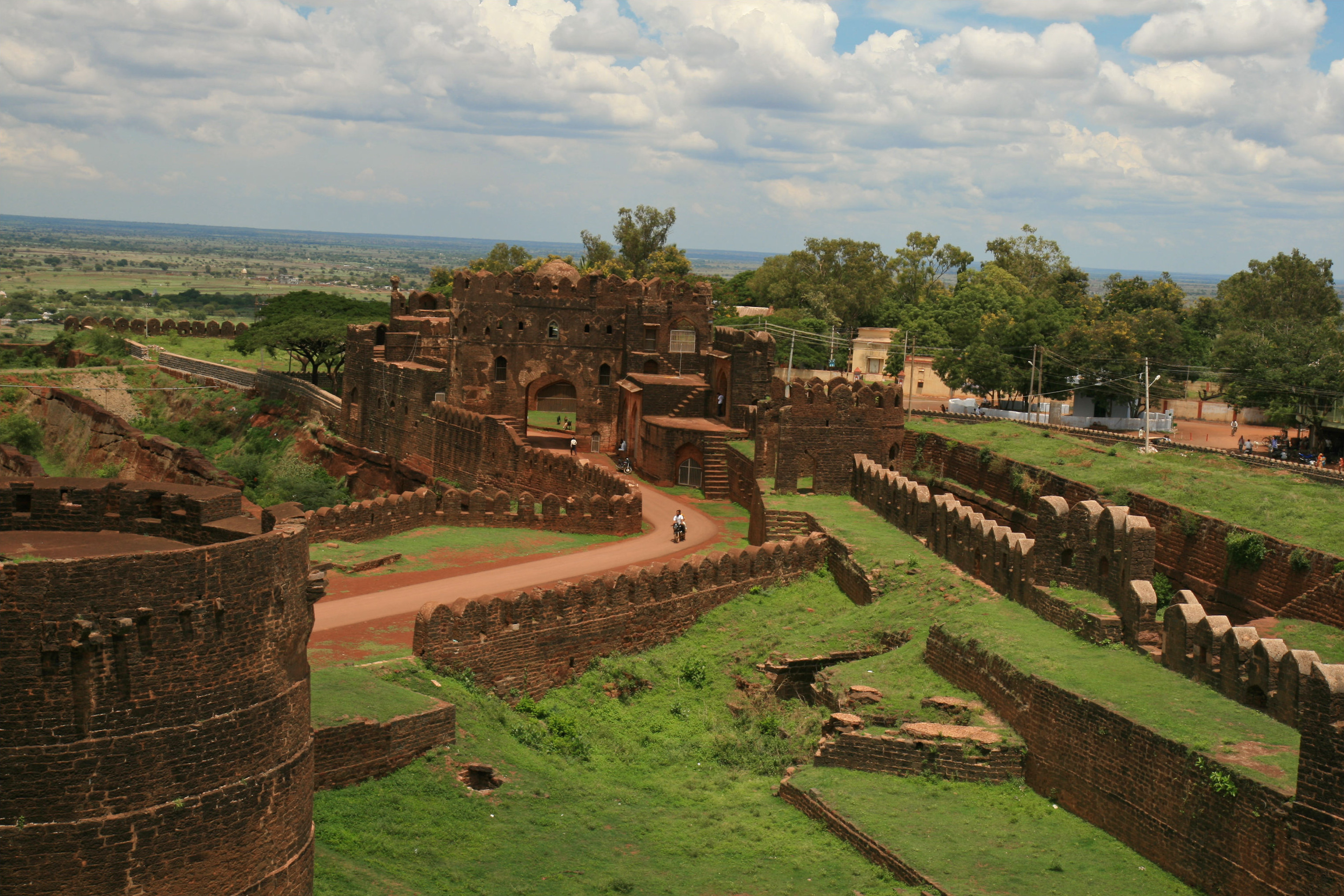 Point of View from the Rangeen MahalRemoved watermark: Madhavi Kuram Photography